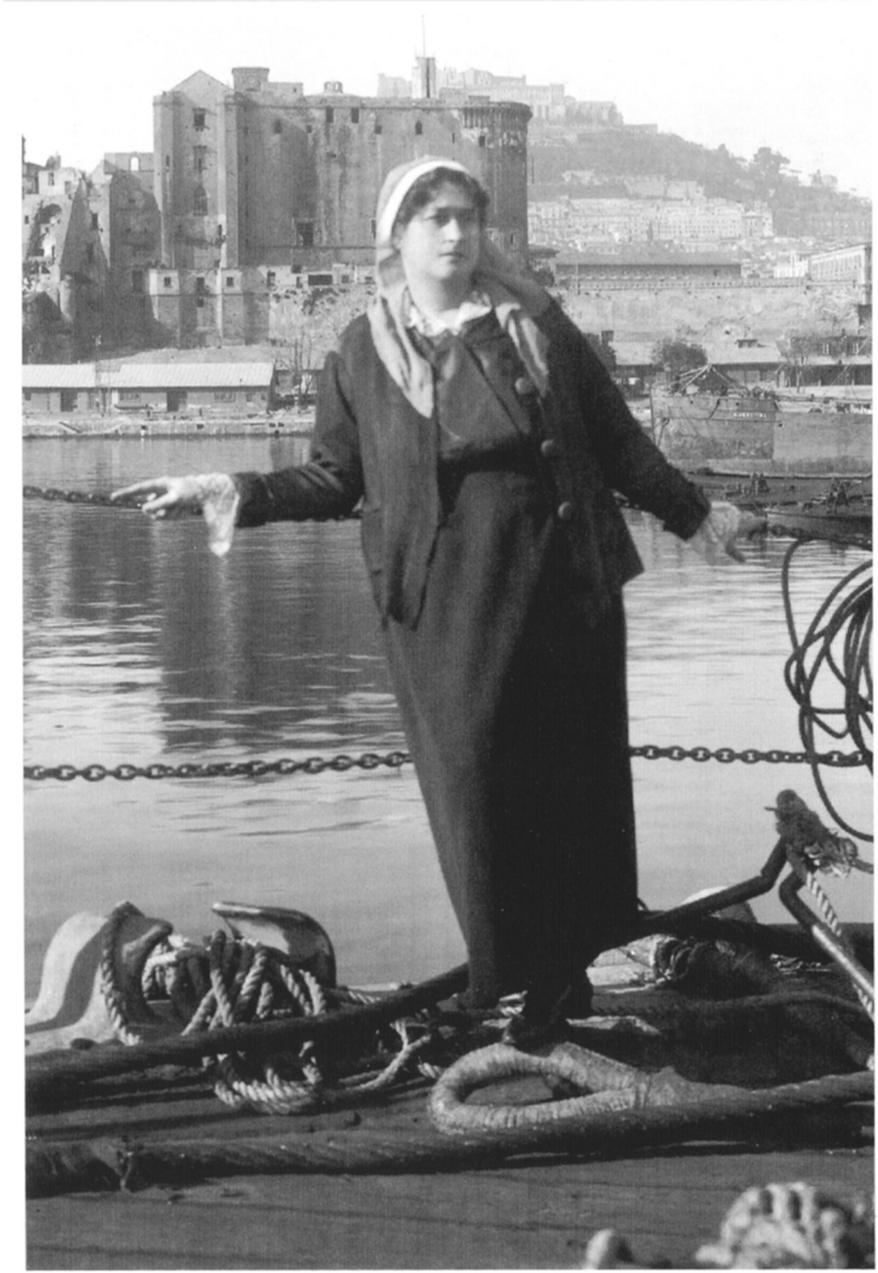 Giulia Civita Franceschi on kindergarten ship Caracciolo, in Naples port (in the background Castel Nuovo - Maschio Angioino castle)